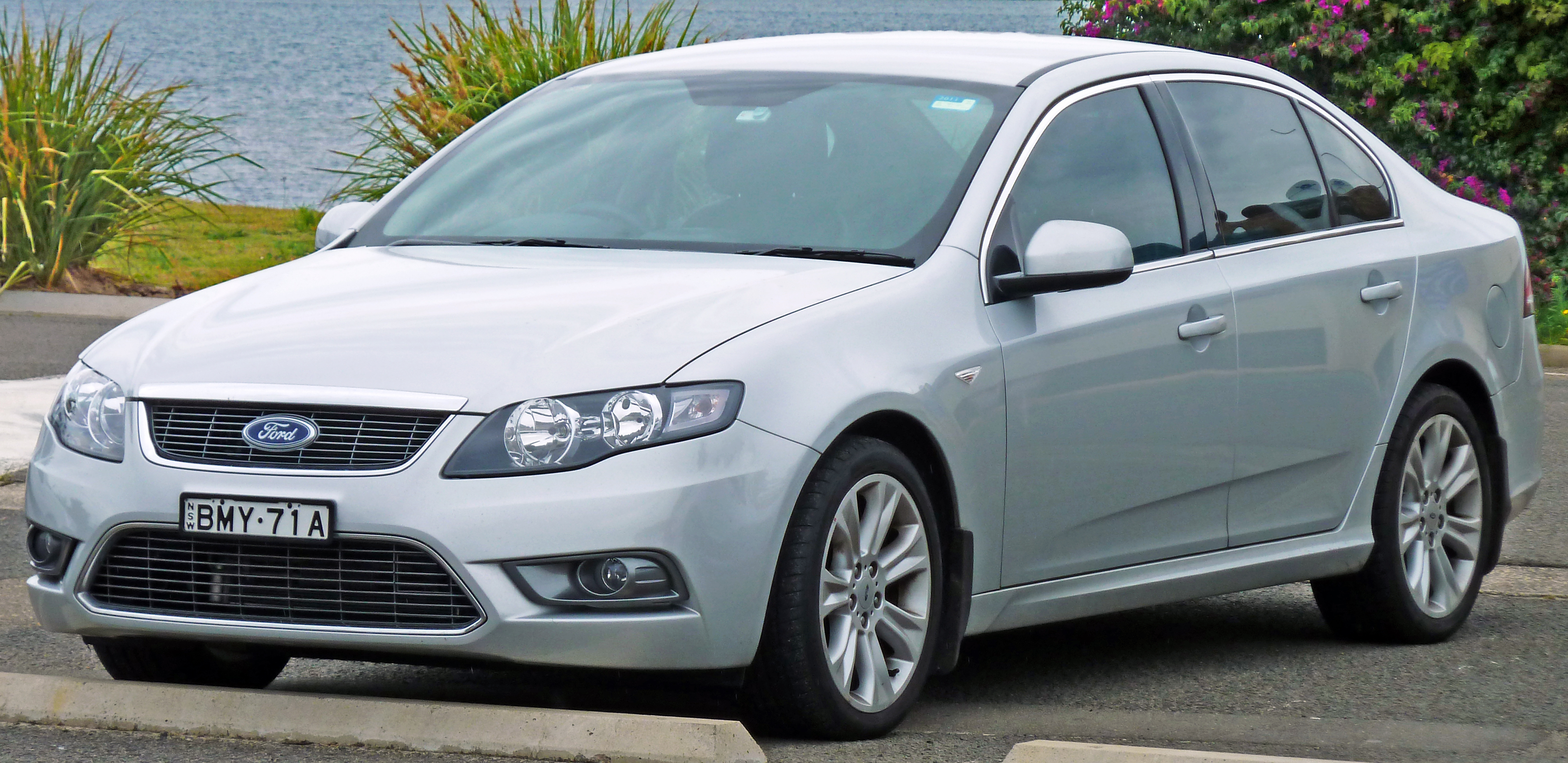 2009–2010 Ford G6 (FG) Limited Edition sedan. Photographed in Sans Souci, New South Wales, Australia.